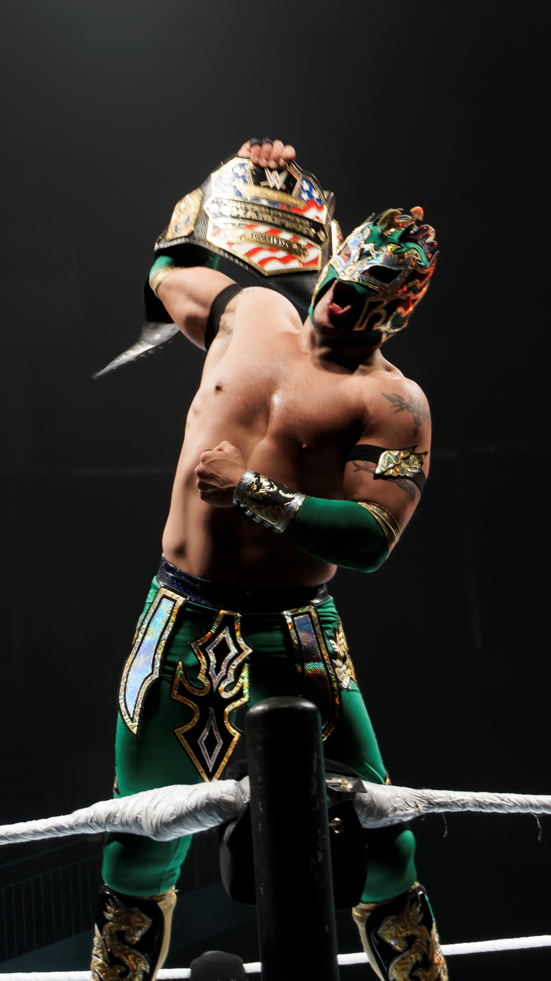 WWE Live WrestleMania Revenge Kalisto (c) def. Ryback For : WWE United States Championship